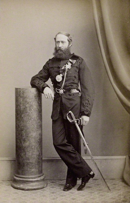 George Godolphin Osborne, 9th Duke of Leeds